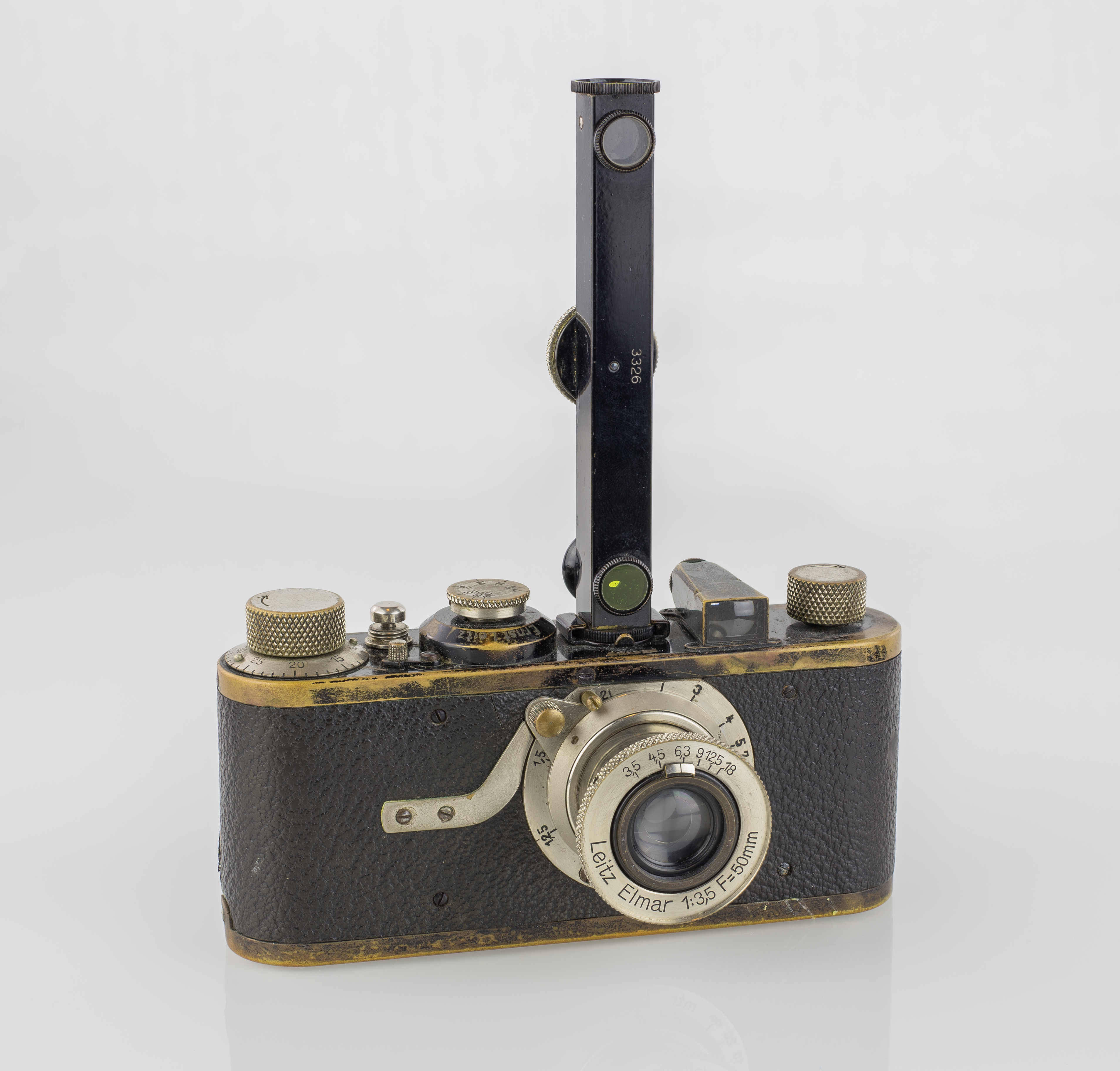 Leica Mod. Ia (1927), production number 5193, production time 1925-1936, Leitz Elmar F=50mm, 1:3.5; with attached distance meter FODIS